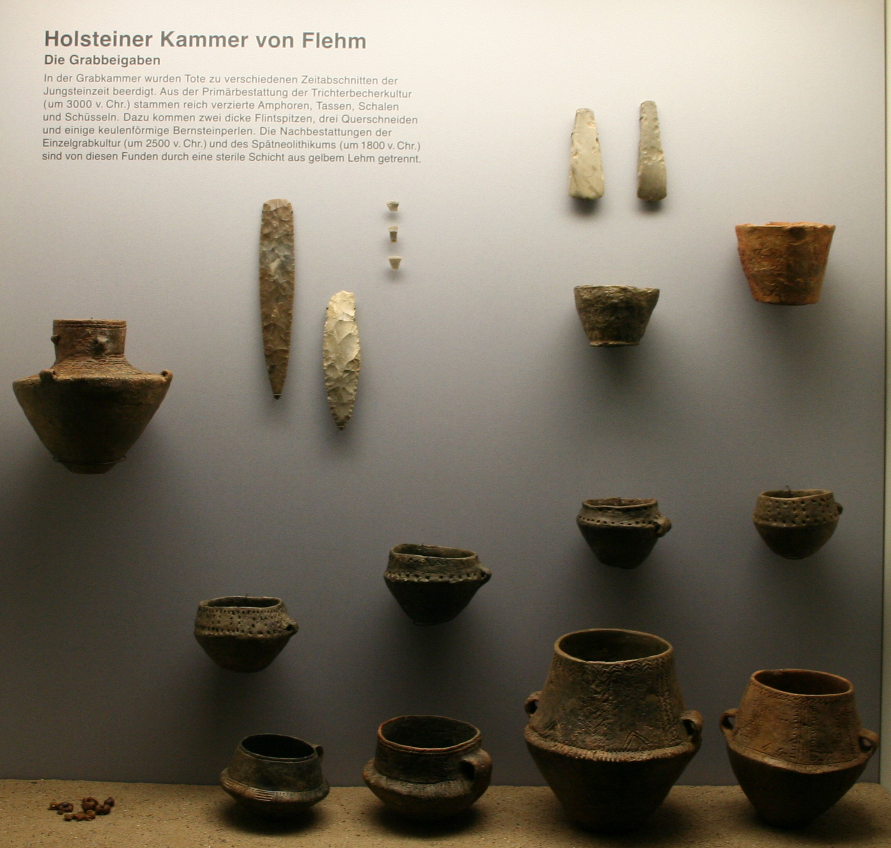 Archaeological state museum Schleswig-Holstein, Gottorf Castle